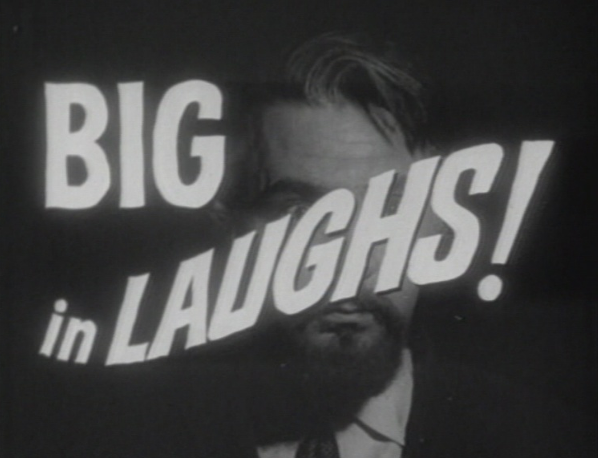 Profile image of actor Mel Welles, in the trailer for the public domain film The Little Shop of Horrors.